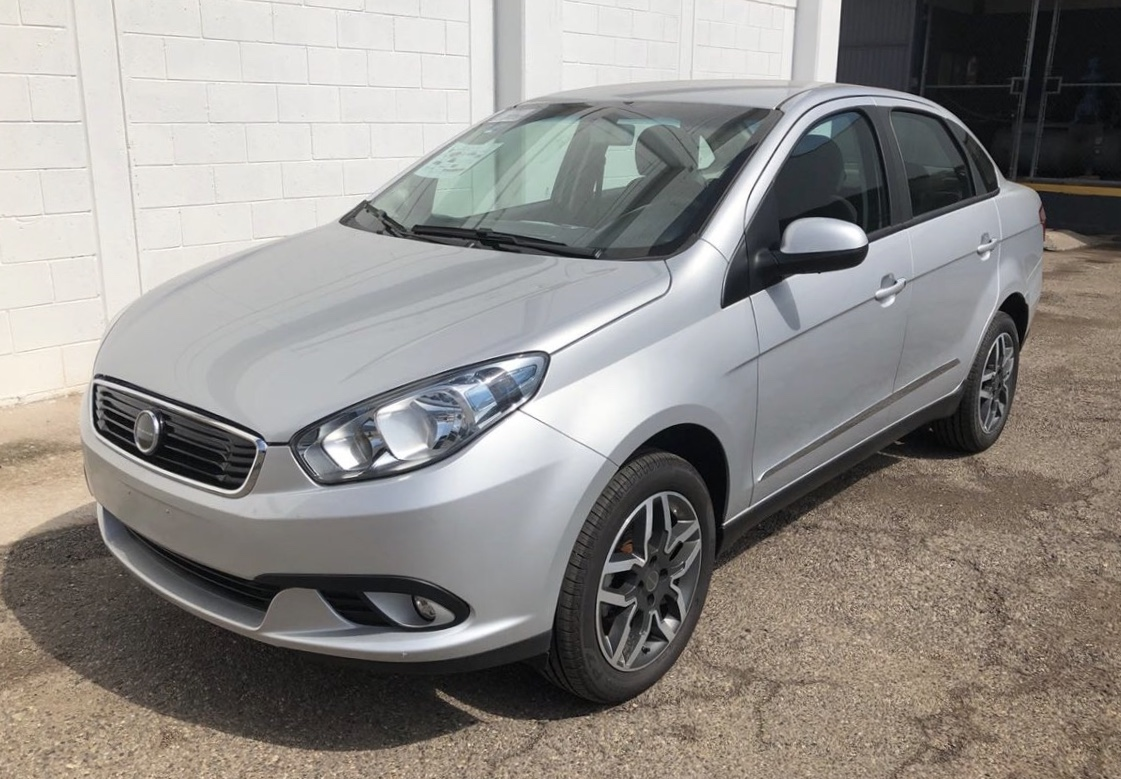 The Dodge Vision MY 2016 1.6 16V SXT in Chile. The vehicle was based on Brazilian Fiat Grand Siena sedan.